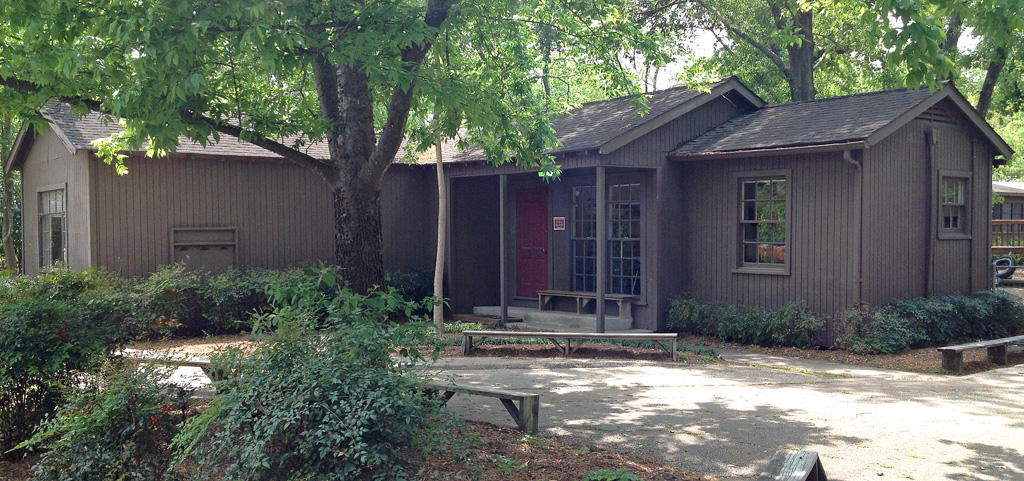 This is the cottage occupied by Ernest and Hilda Woods from 1962 to 1965. The property was acquired in the 1970s by School of the Woods which they founded. It now serves as the school development office and is a reminder of the founders. This photo was taken on April 1, 2013. Ernest Wood